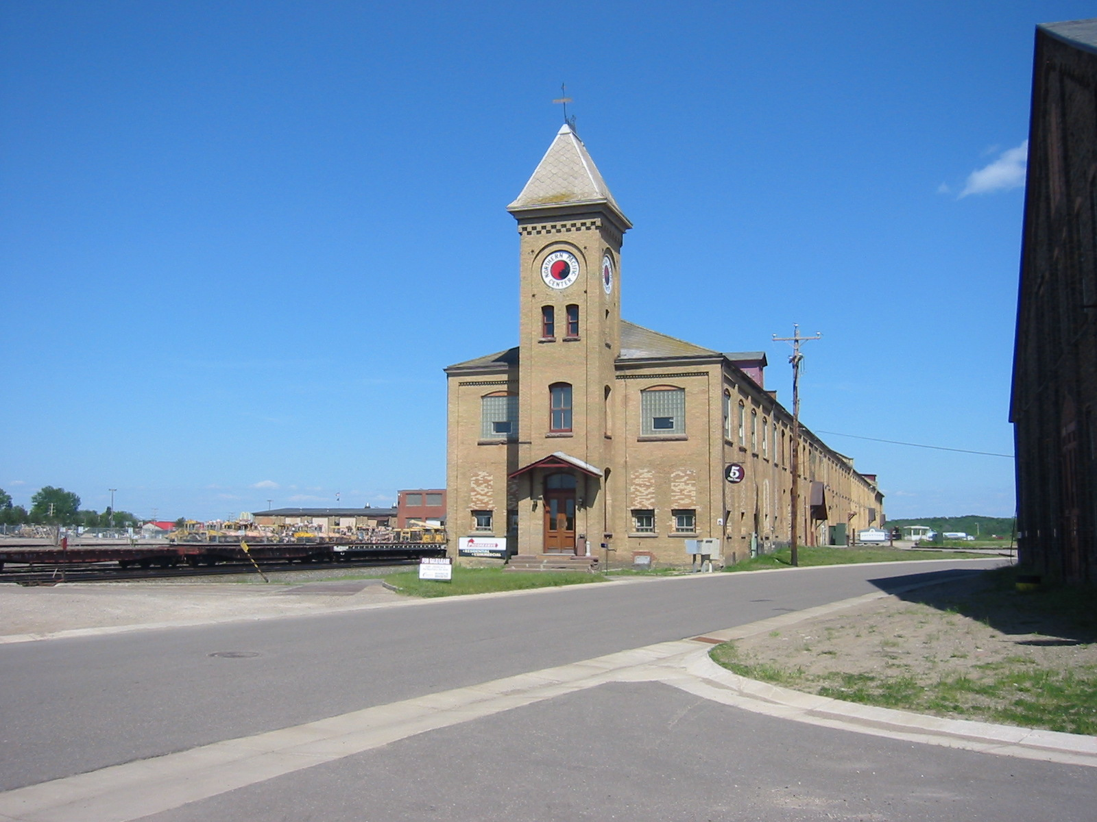 Northern Pacific Railroad Shops Historic District in Brainerd, Minnesota.